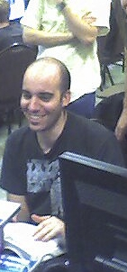 Doug Church, developer of games such as System Shock and Thief: The Dark Project.